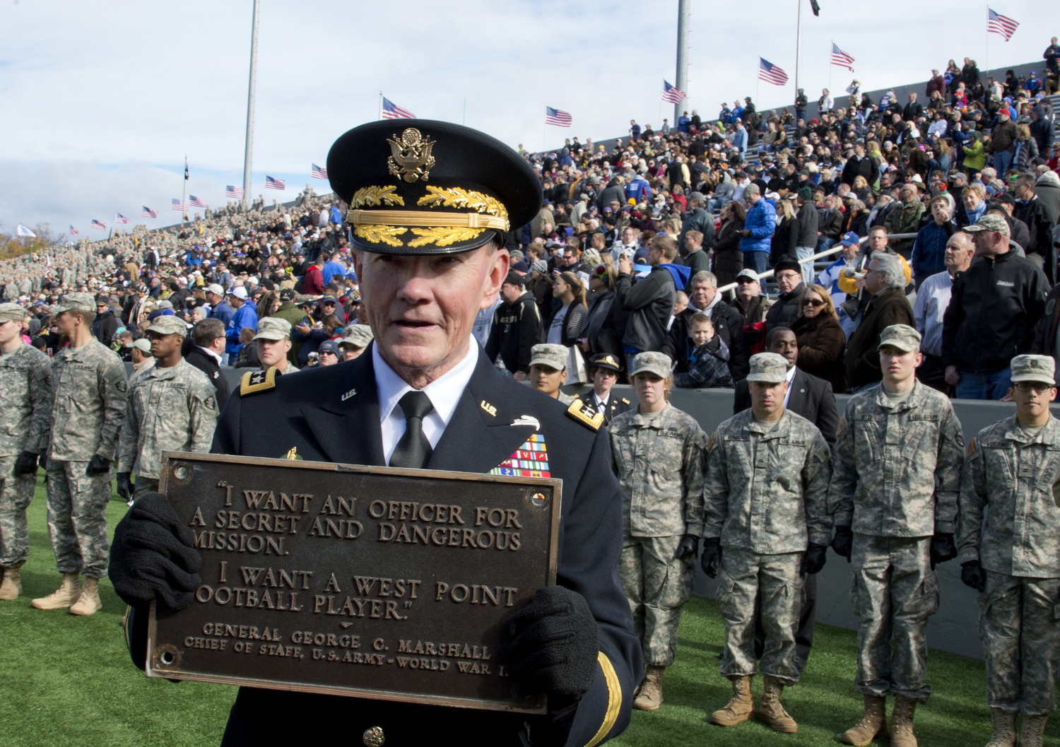 Chairman of the Joint Chiefs of Staff U.S. Army General Martin E. Dempsey Army vs Air Force Football Game, West Point, N.Y., November 3, 2012